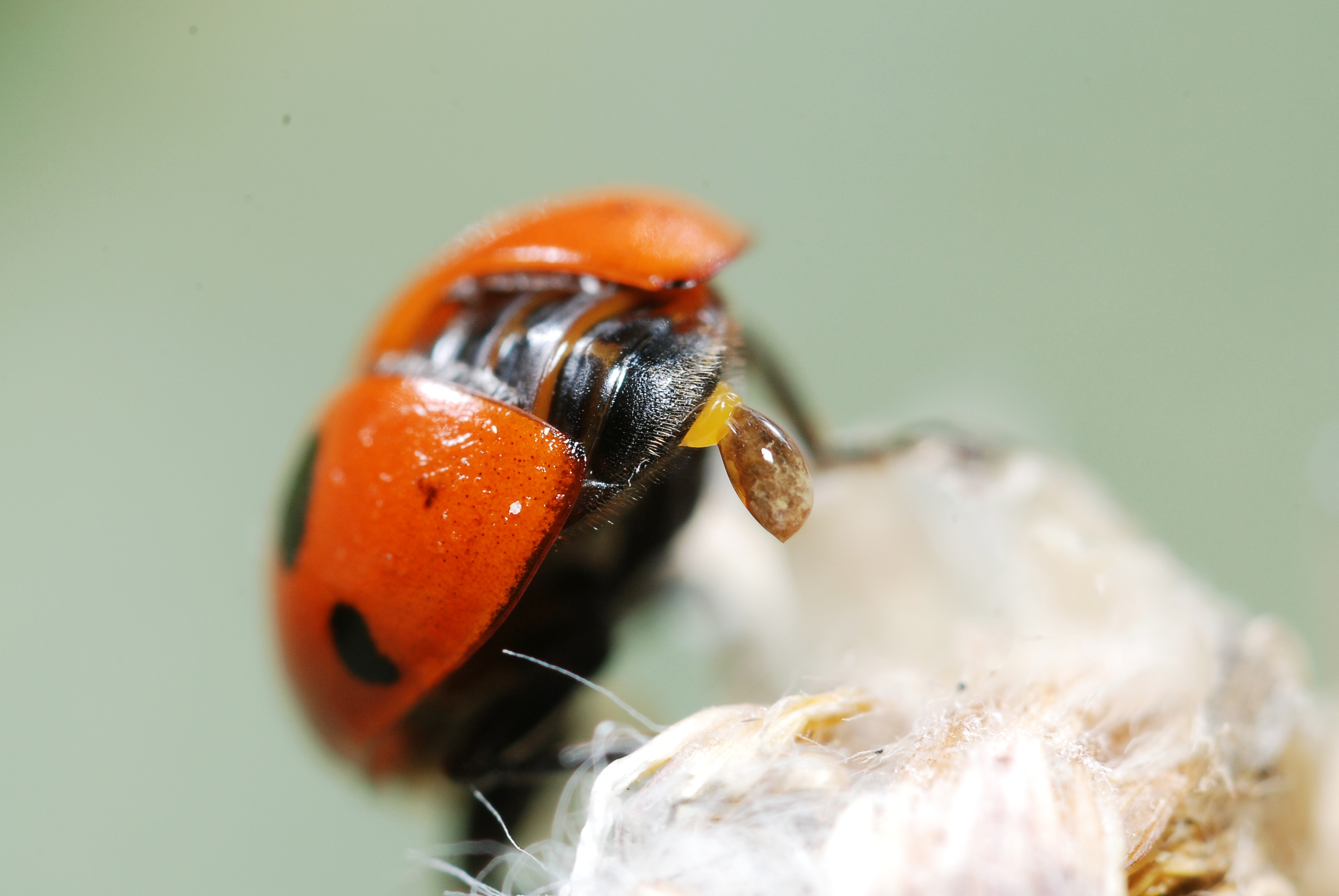 The ladybird Hippodamia undecimpustulata laying faeces